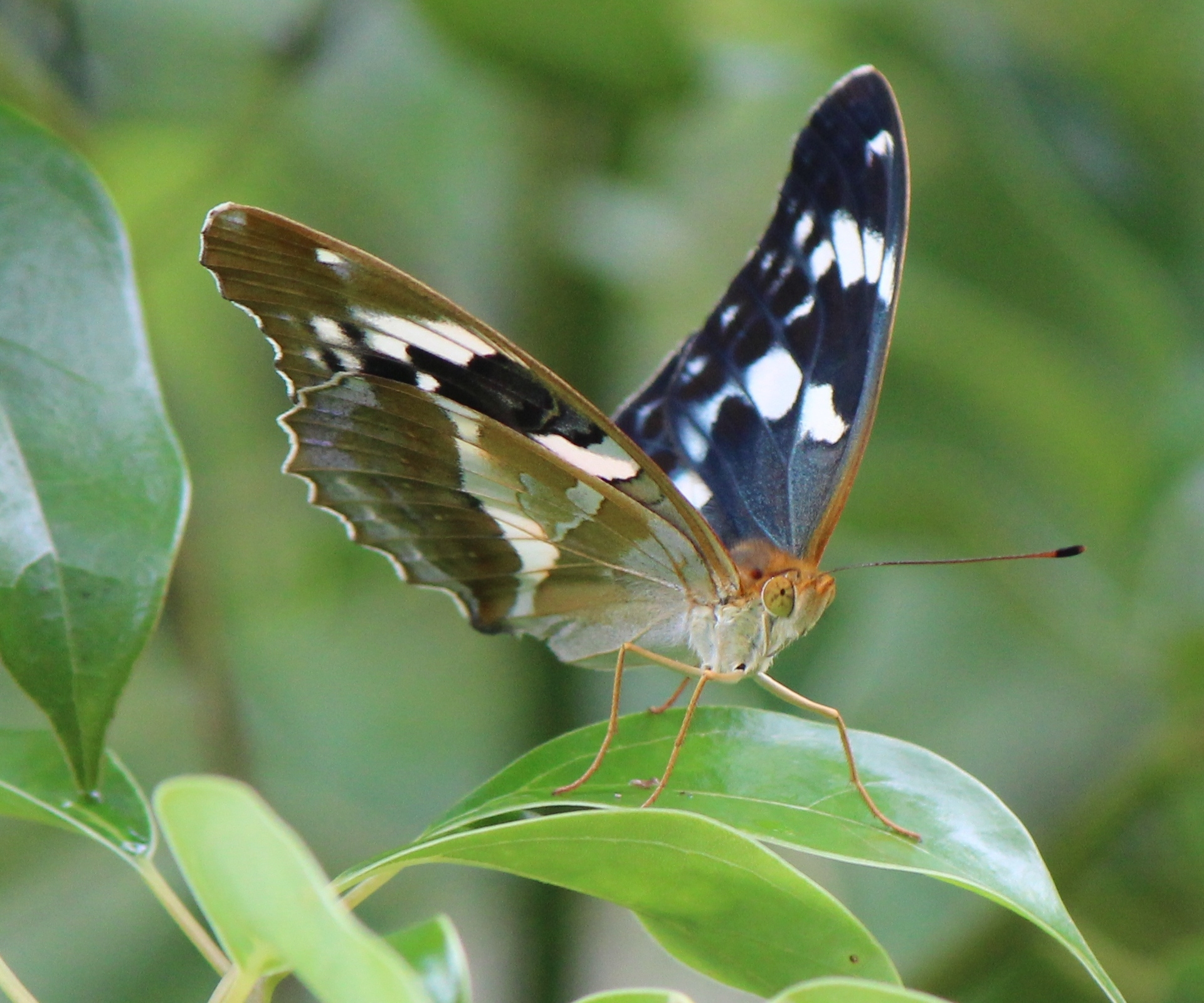 Damora sagana liane, female in Japan.